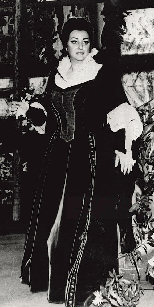 The Spanish soprano Montserrat Caballe portraited in the opera scenography dressed up with a costume. 1969.